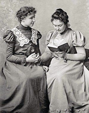 Helen Keller and Anne Sullivan in 1898. On the left Helen Keller and on the right Anne Sullivan.